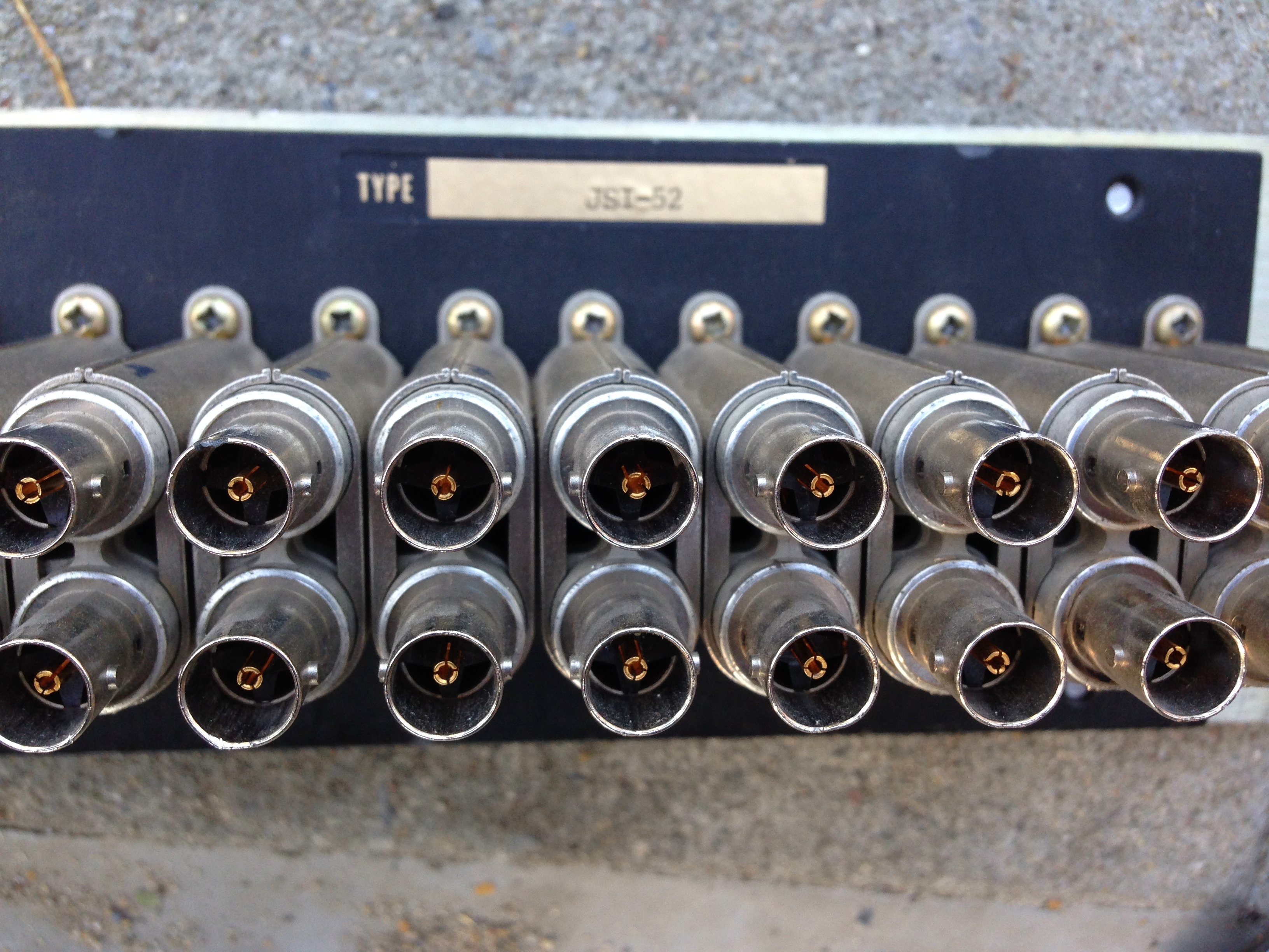 Rear view of Trompeter JSI-52 patch panel with dual coax dual patch jacks.